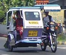 Philippine Taxi/PUV or private motor-vehicle for hire Auto rickshaw/Motorcycle with seven passenger sidecar attached. Locally manufactured in the province of Aklan Philippines.